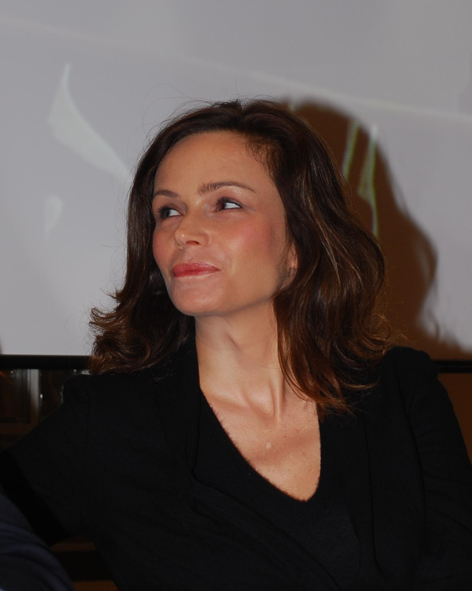 Francesca Neri, Italian actress